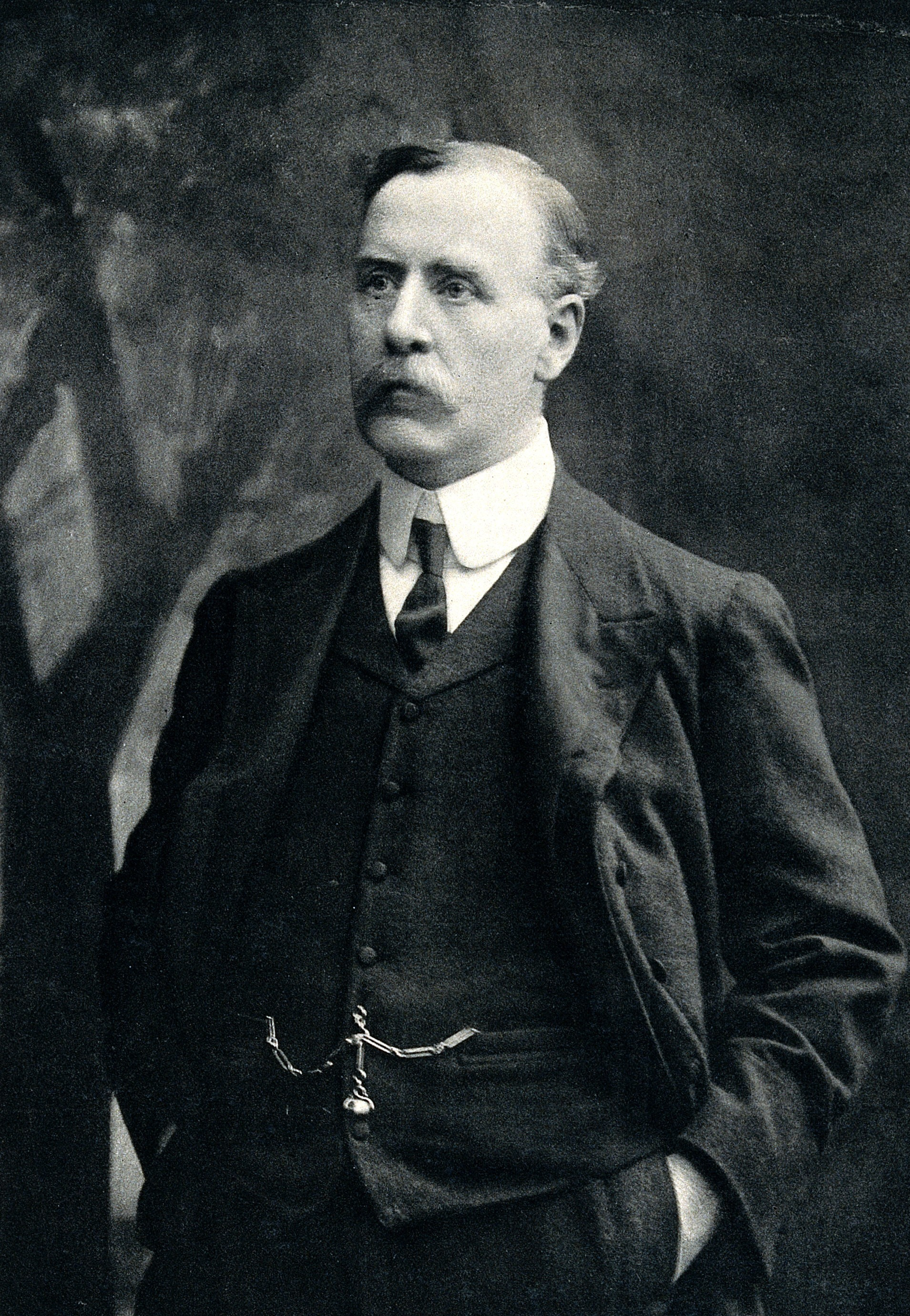 Sir William Watson Cheyne.